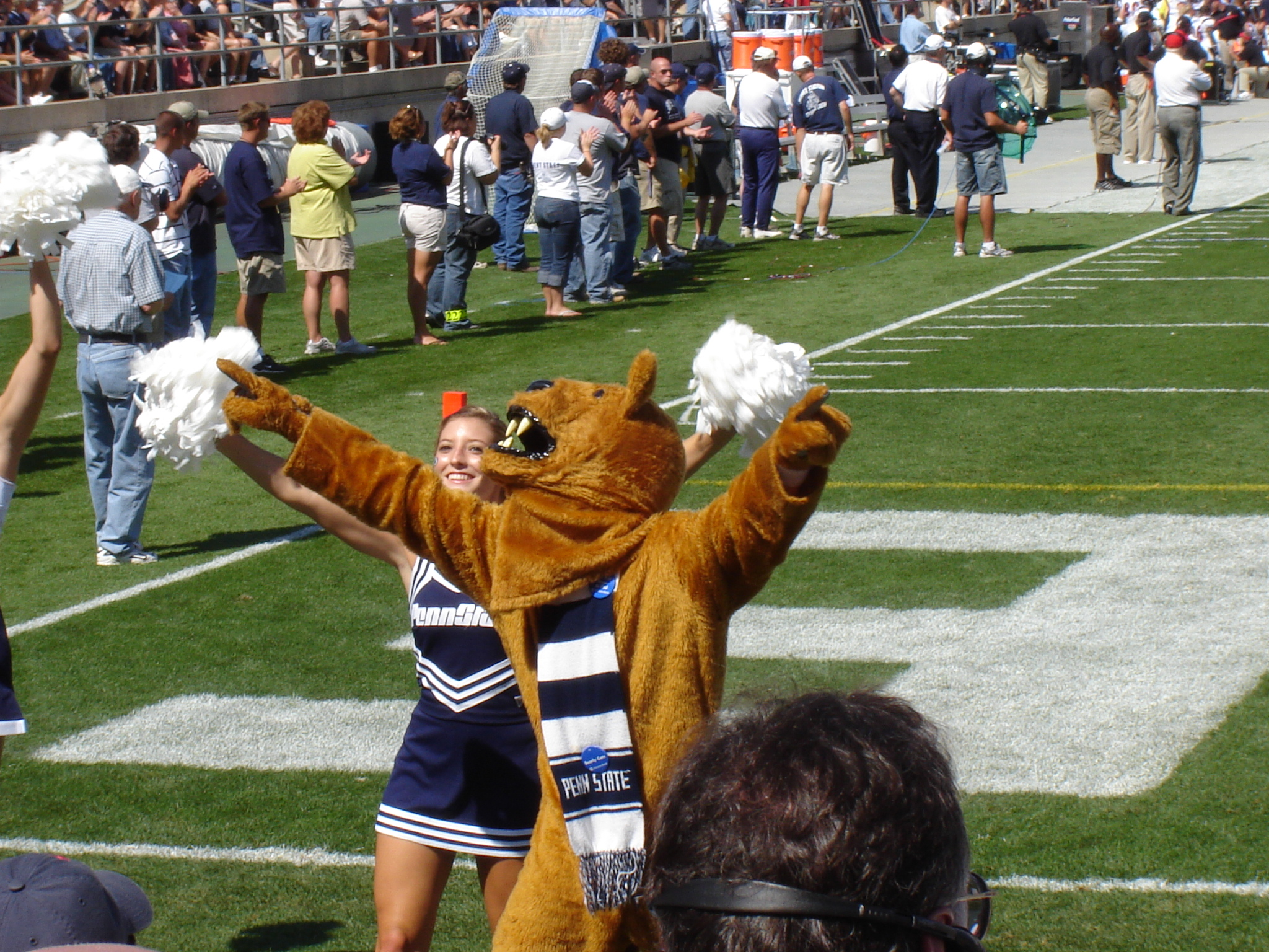 The Nittany Lion and a Penn State cheerleader at the 2005 football game versus Cincinnati at Beaver Stadium.